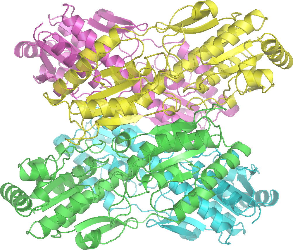 Phosphofructokinase 6FPK.